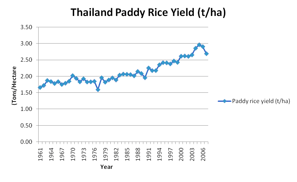 Graph of statistics from